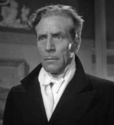 Paul Cavanagh in The Woman in Green - cropped screenshot